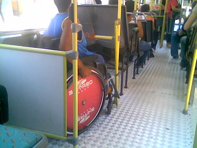 Bus interior in Belo Horizonte, Minas Gerais, Brazil.